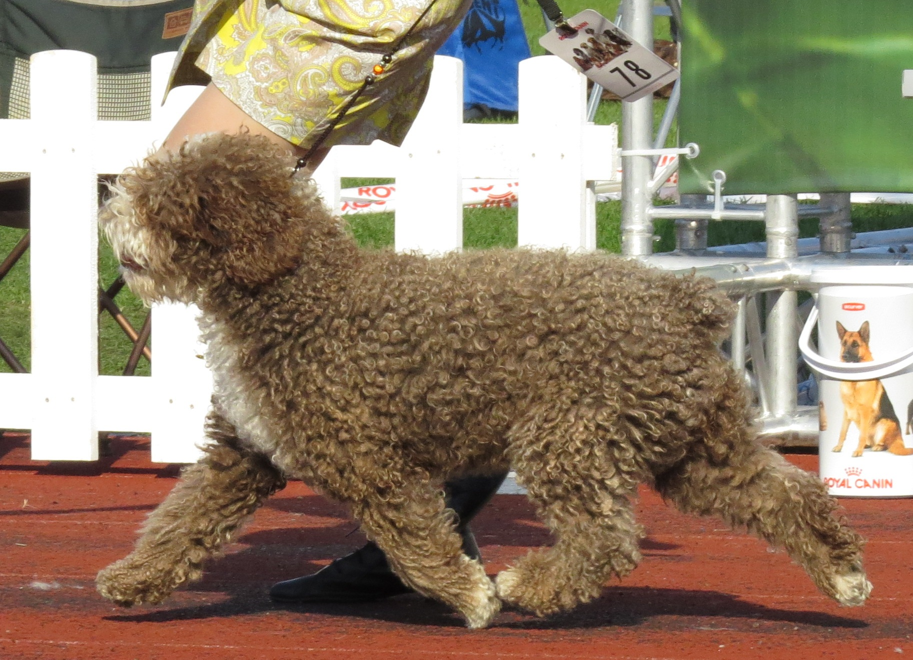 Tallinn, Estonia, duo CACIB 2013, August 17-18